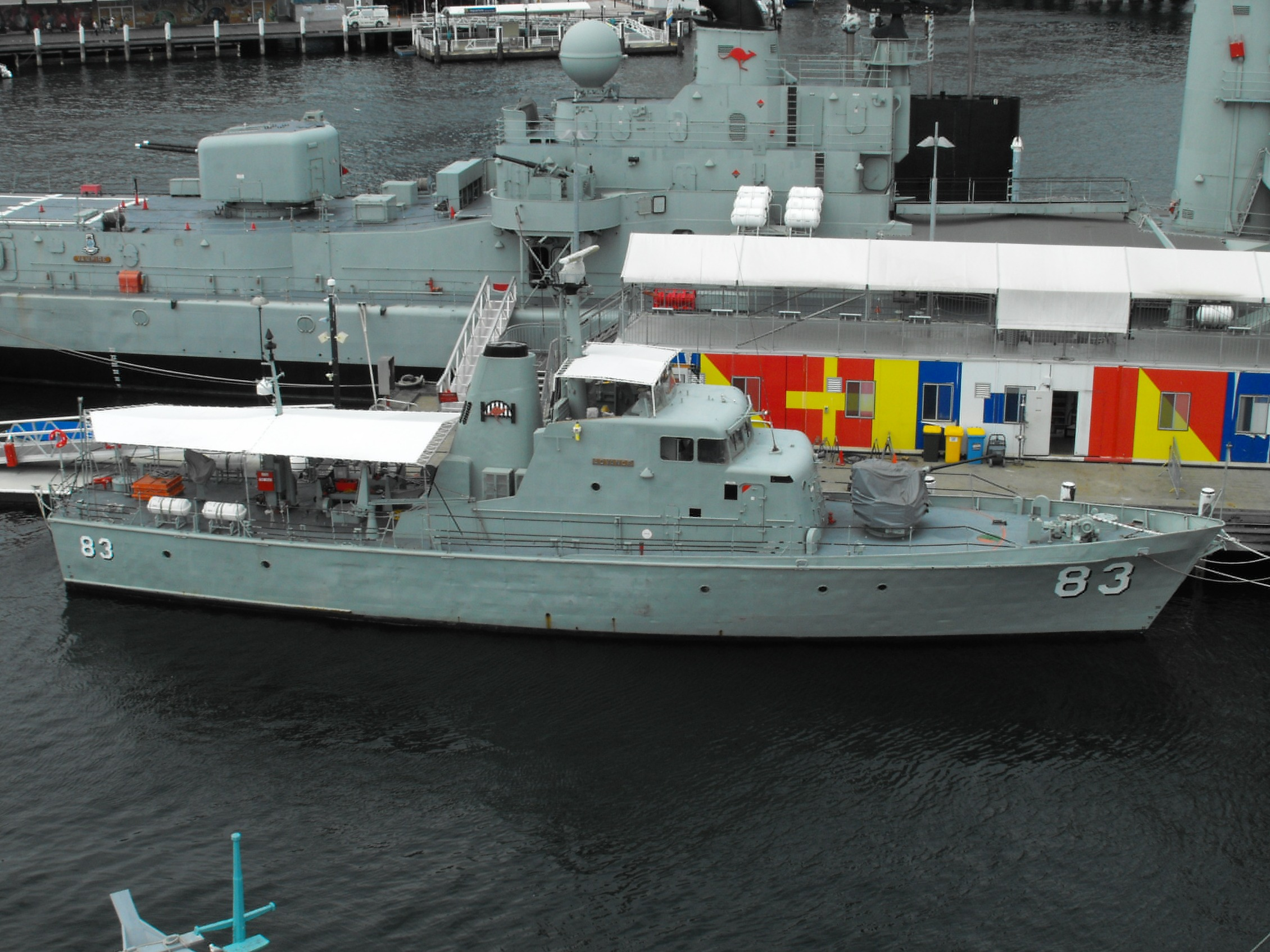 The former Royal Australian Navy patrol boat HMAS Advance (P 83) on display outside the Australian National Maritime Museum